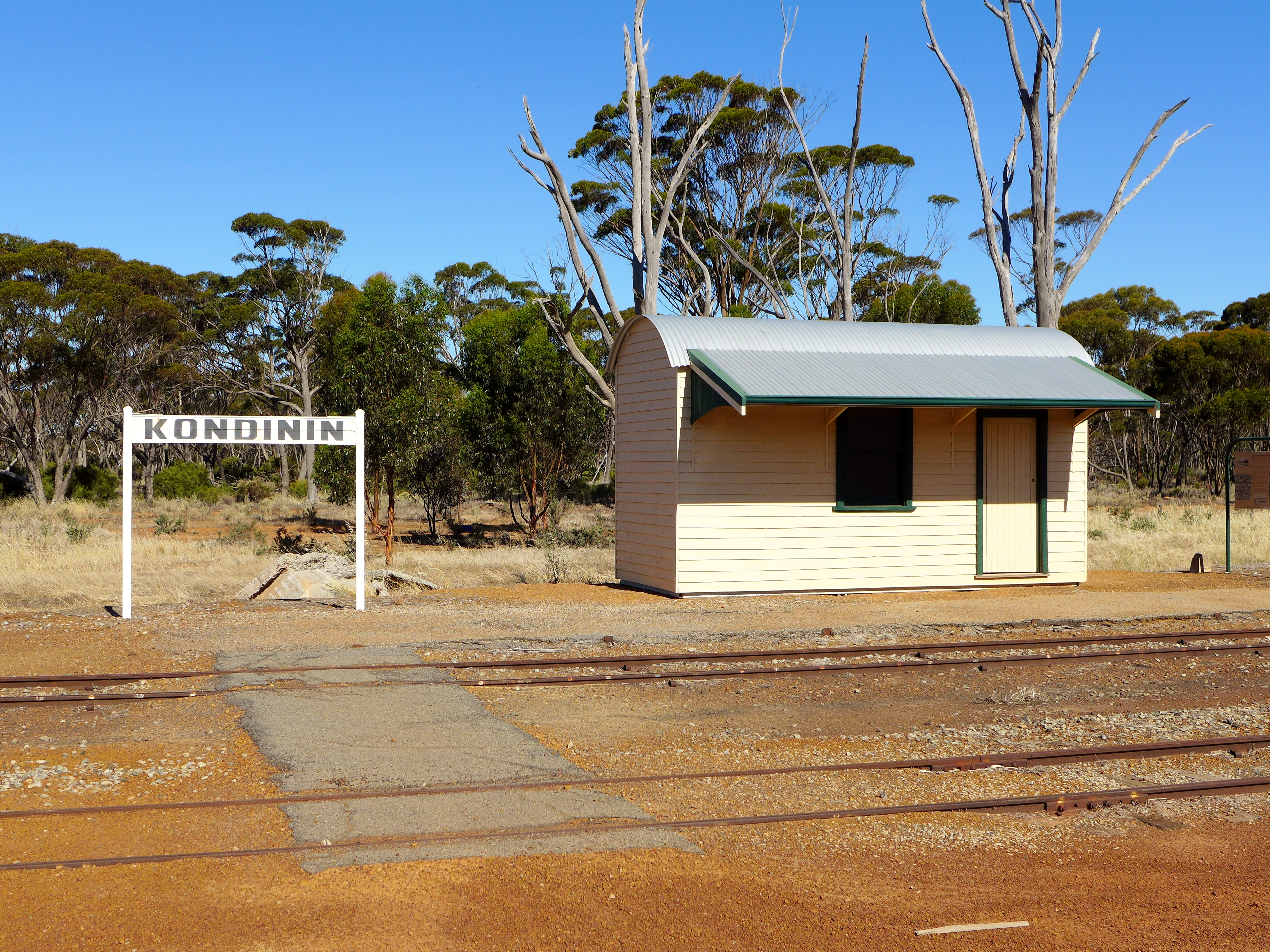 View of the old station building at Kondinin railway station, Kondinin, Western Australia.